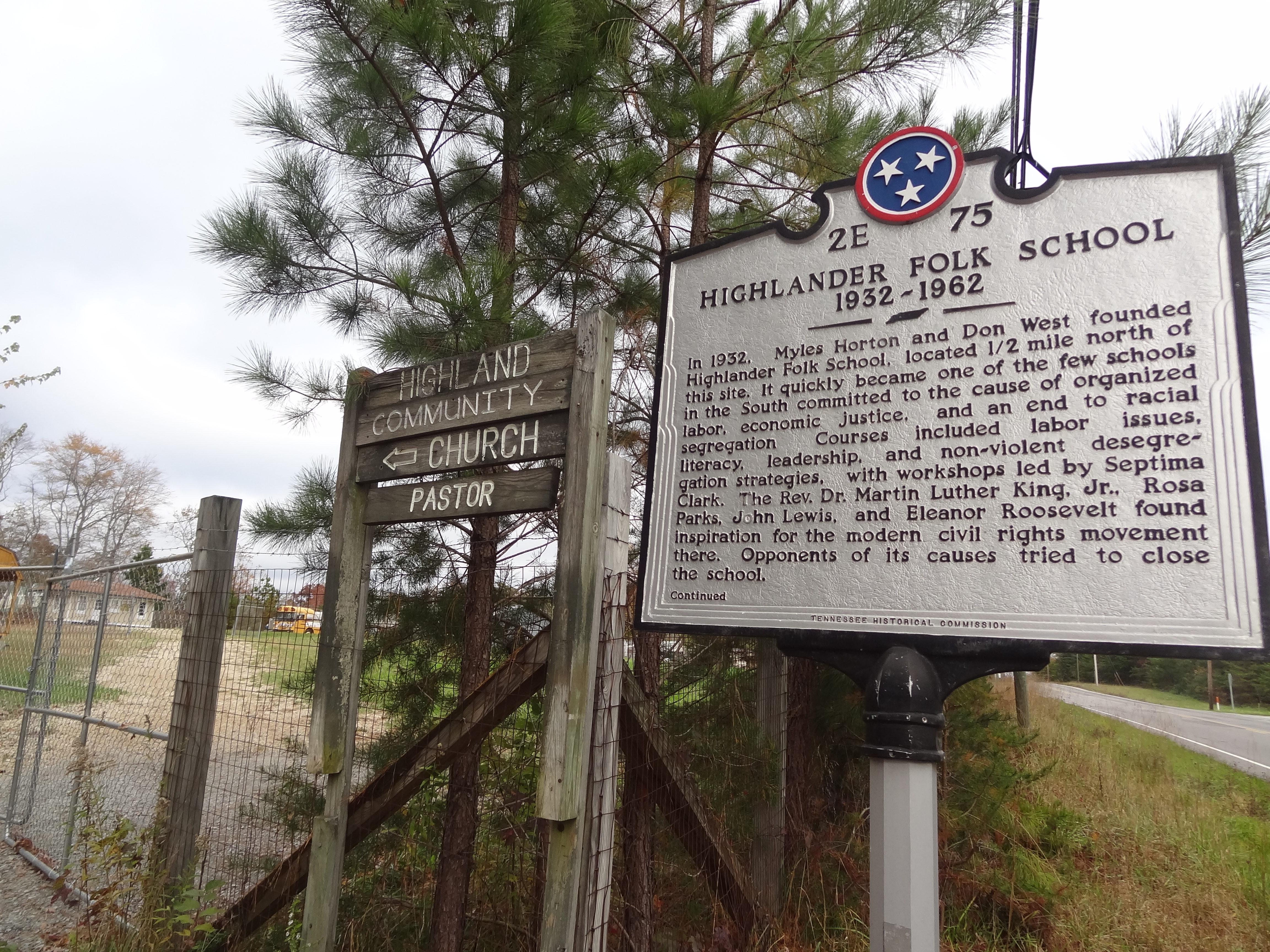 (Front) 2E 75 HIGHLANDER FOLK SCHOOL 1932-1962 In 1932, Myles Horton and Don West founded Highlander Folk School, located ½ mile north of this site. It quickly became one of the few schools in the South committed to the cause of organized labor, economic justice, and an end to racial segregation. Courses included labor issues, literacy, leadership, and non-violent desegregation strategies, with workshops led by Septima Clark. The Rev. Dr. Martin Luther King, Jr., Rosa Parks, John Lewis, and Eleanor Roosevelt found inspiration for the modern civil rights movement there. Opponents of its causes tried to close the school. Continued (Back) Following a 1959-1960 trial in Grundy County, the State of Tennessee revoked the school’s charter. It was adjudged to have violated segregation laws, sold beer without a license, and conveyed property to Myles Horton for his home. When the sheriff padlocked the school, Horton proclaimed Highlander to be an idea rather than simply a group of buildings, adding “You can’t padlock an idea.” In a 1979 Ford Foundation Report, Highlander was singled out as the most notable American experiment in adult education for social change. Tennessee Historical Commission